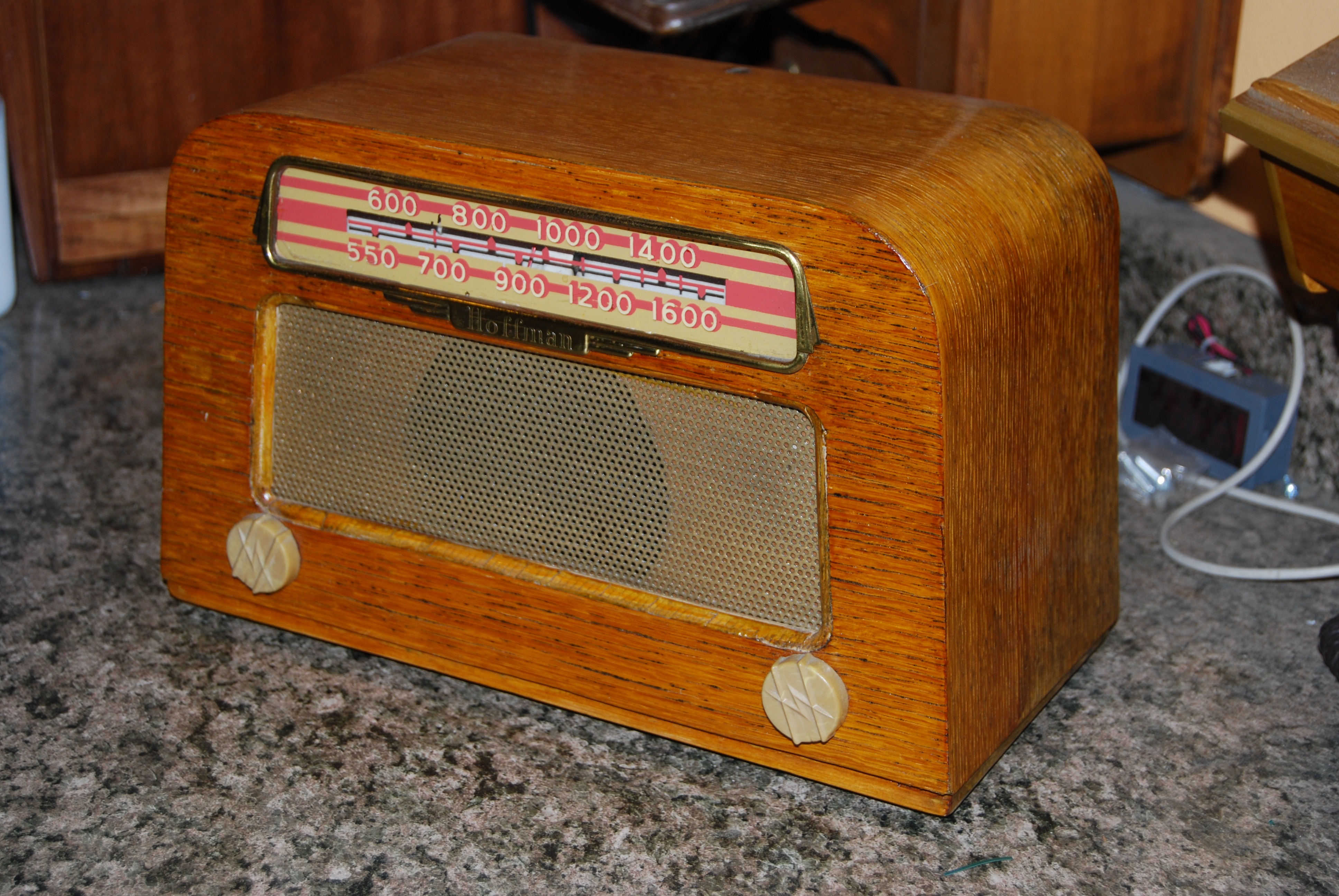 Right after World War 2 ended Les Hoffman used designs from Mission Bell Radio Mfg. He purchased Mission Bell in 1941 when the company went bankrupt.